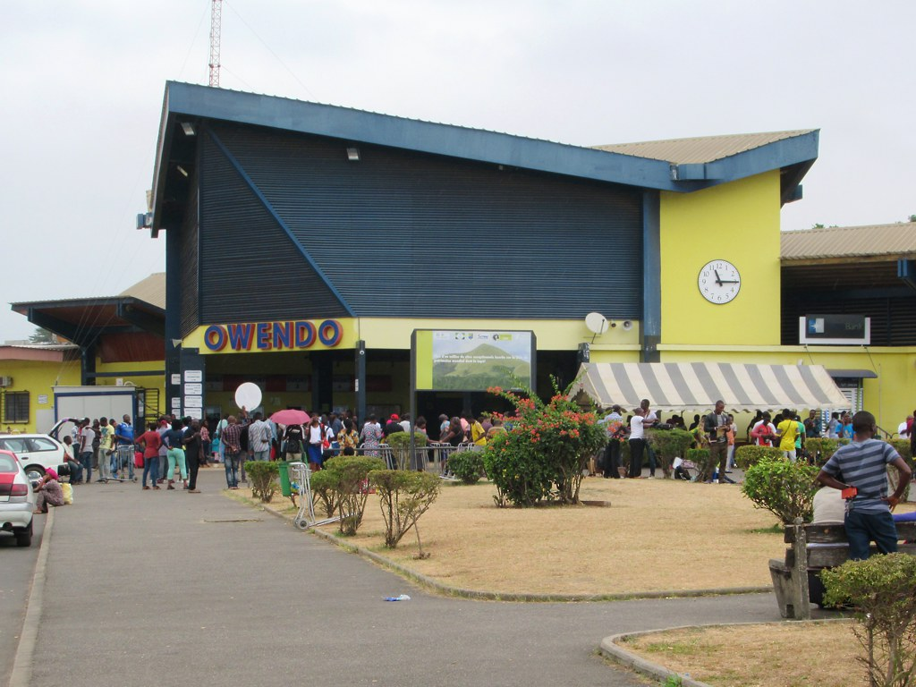 Trains to Franceville in southeastern Gabon, Central Africa, leave from the Gare d'Owendo, 10 kilometers south of downtown Libreville.